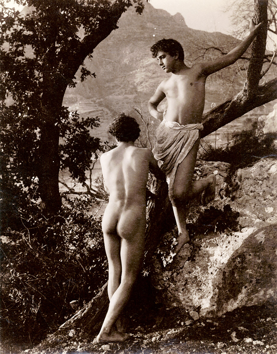 Wilhelm von Gloeden (1856-1931). Catalogue number: 1189. Two male nudes outdoors. Circa 1900. Albumen print. 21 x 16,5 cm. Photographer's W. von Gloeden, Taormina (Sicilia) copyright/date stamp and number 1189 in blue crayon on the verso.